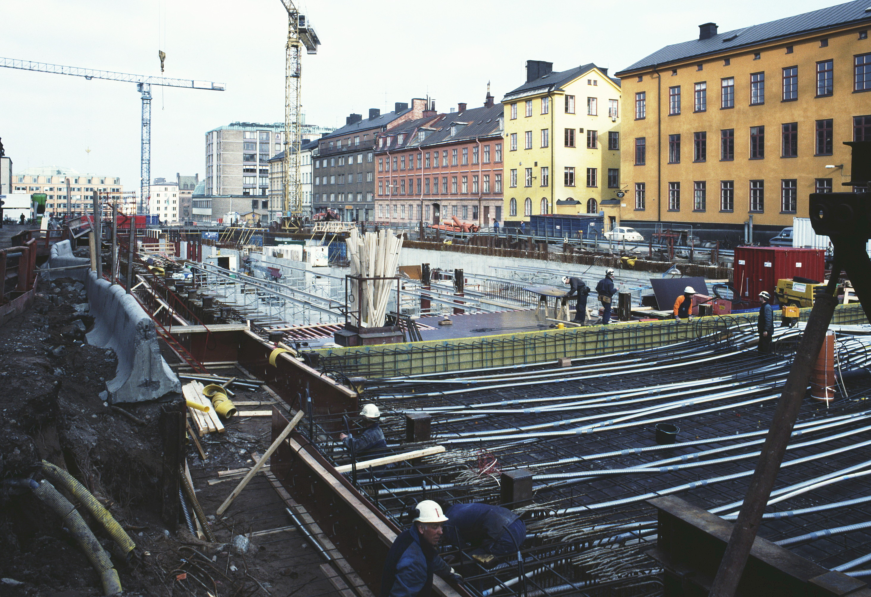 FOTOGRAFIArbete medöverdäckning av Söderleden. Vy norrut mot Sankt Paulsgatan. Till höger Repslagargatan och kvarteret Västergötland. Längst till höger Almgrens sidenväveri. 1991-1991FOTOGRAF: Norgren, Klas.BILDNUMMER: Dia 5928Stadsmuseet i Stockholm